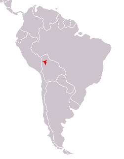 Distribution of Callicebus ollalae.